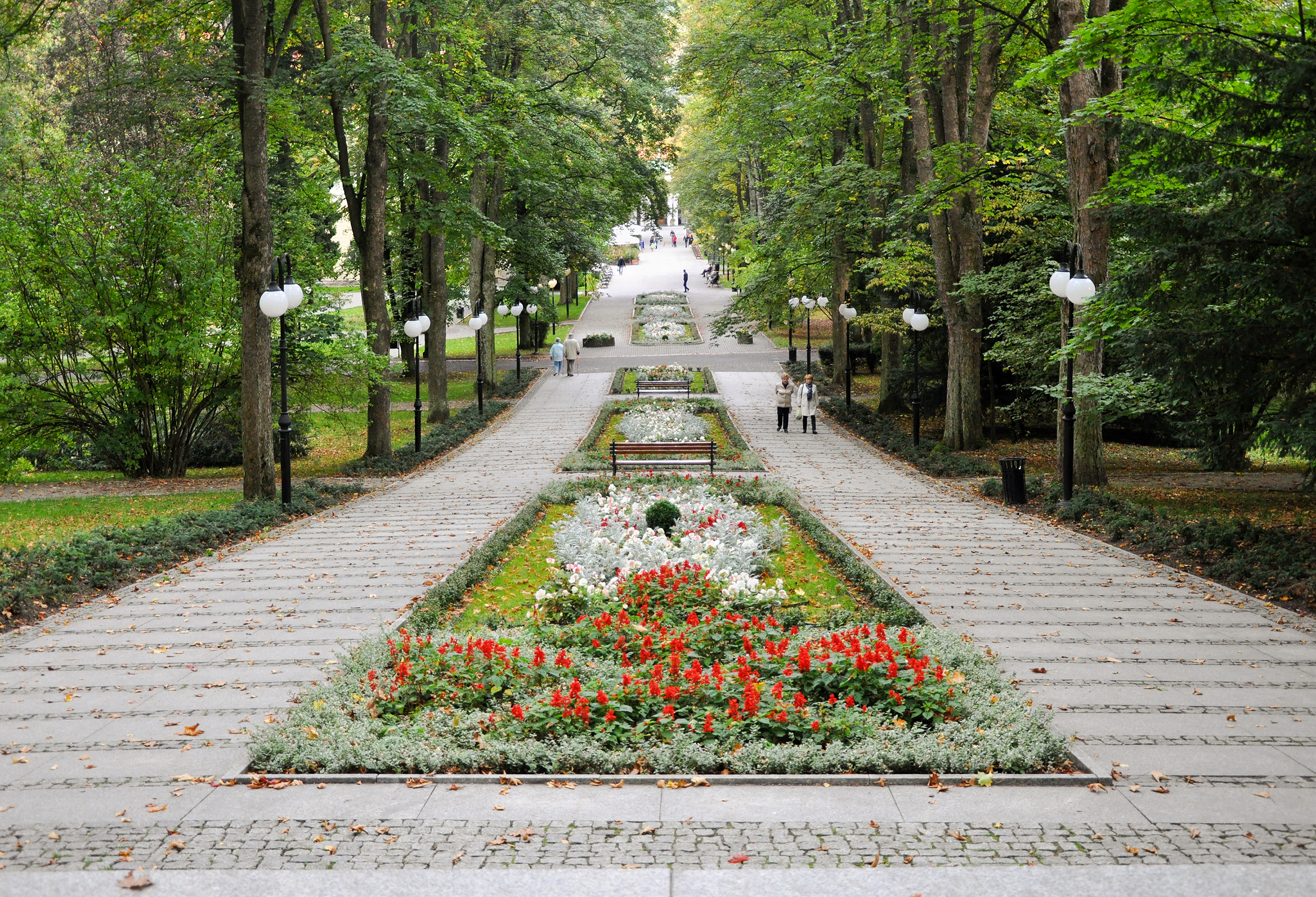 Spa park in Polanica-Zdrój